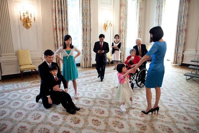 Commerce Secretary Gary Locke, left, and his family relax in the State Dining Room of the White House while waiting for the arrival of President Barack Obama before Locke's swearing-in ceremony May 1, 2009.